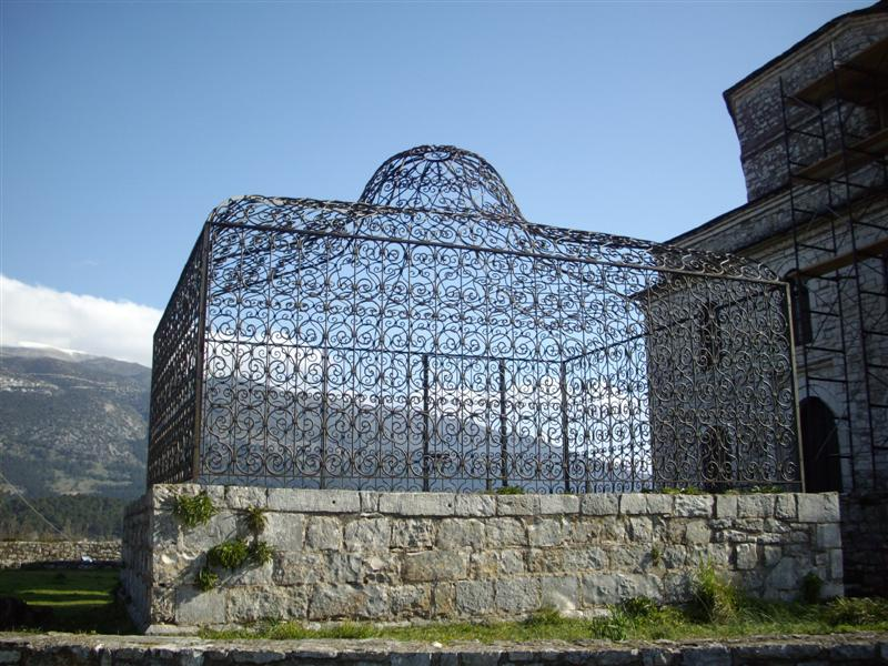 Ali Pasha's Grave at Ioannina, Greece. The top metal cover had been stolen in 2nd WW by Nazis but the local government has built a new one with the available drawings in their hand.